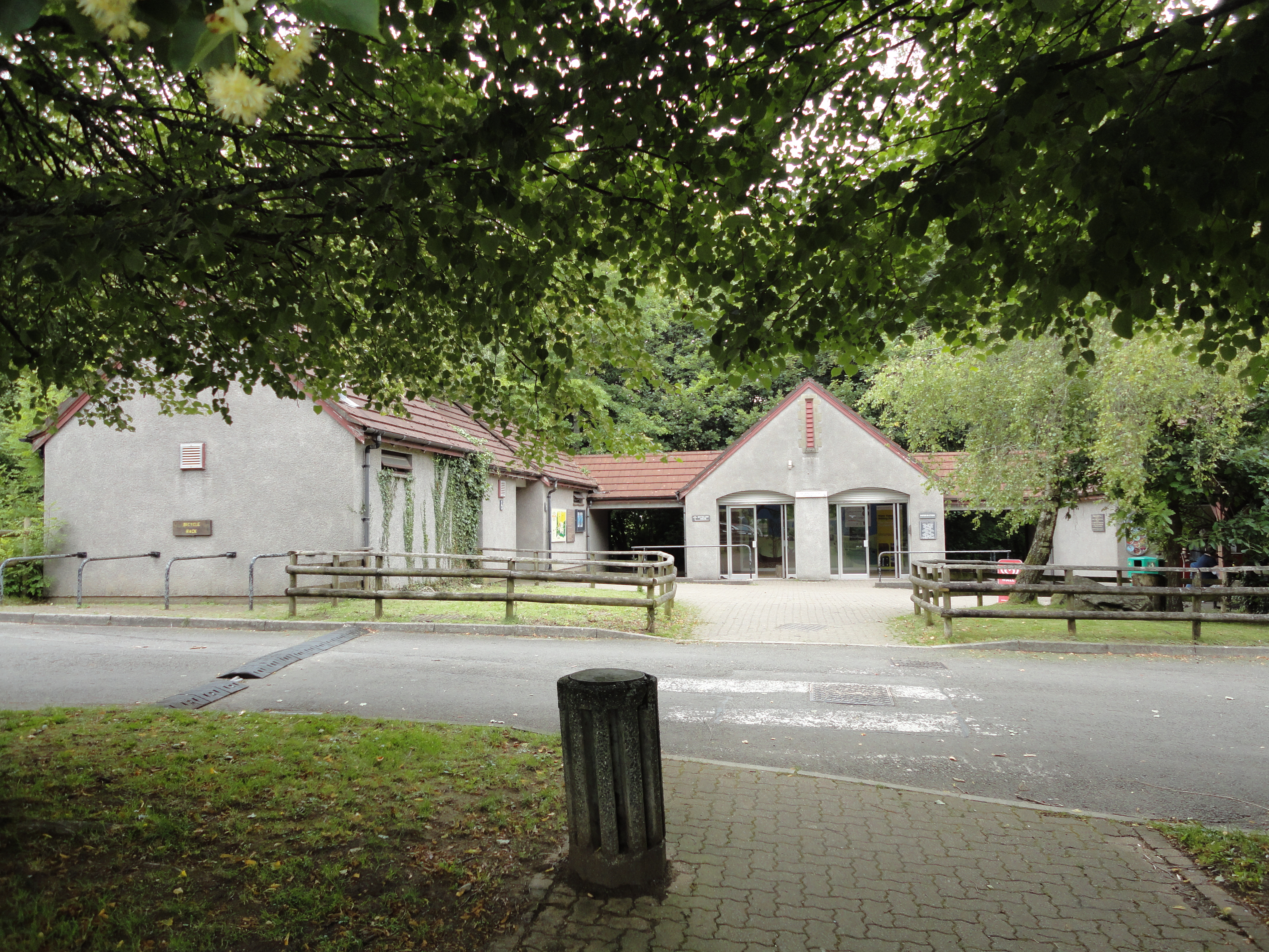 Bryngarw Country Park, Visitor Centre 2011